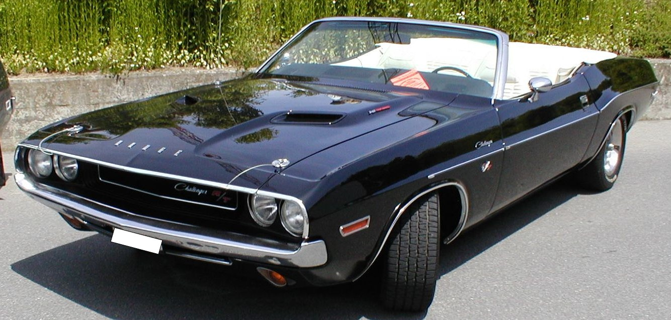 Dodge Challenger R/T Convertible